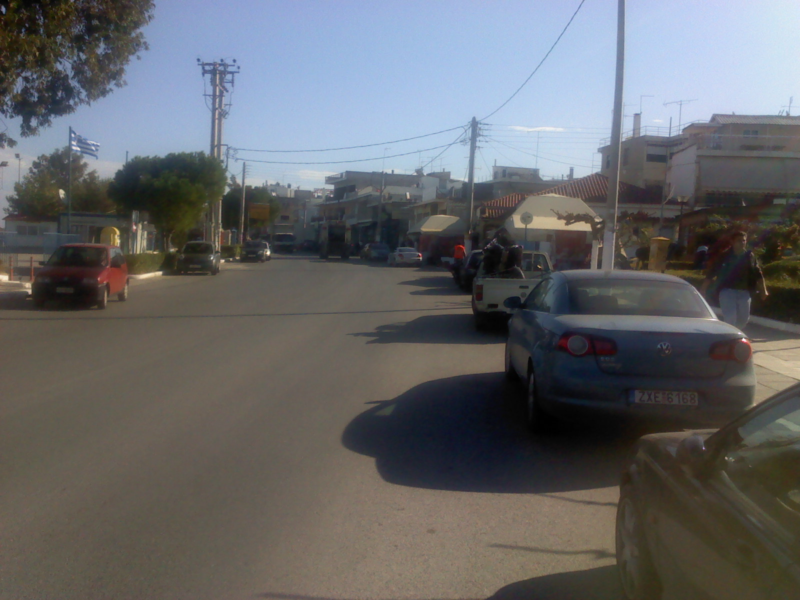 Rue Seaside Skala Oropou